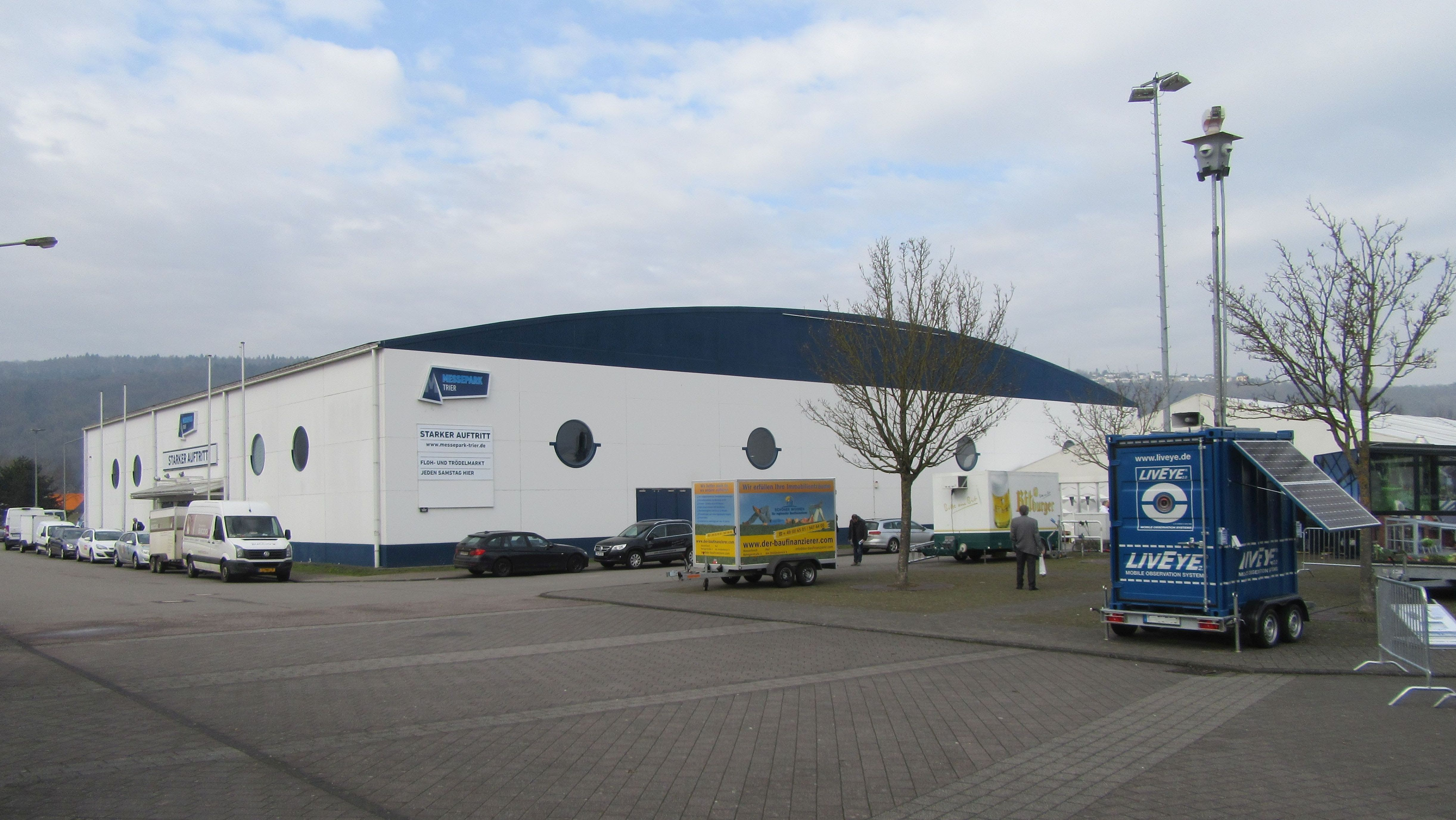 Messeparkhalle Trier